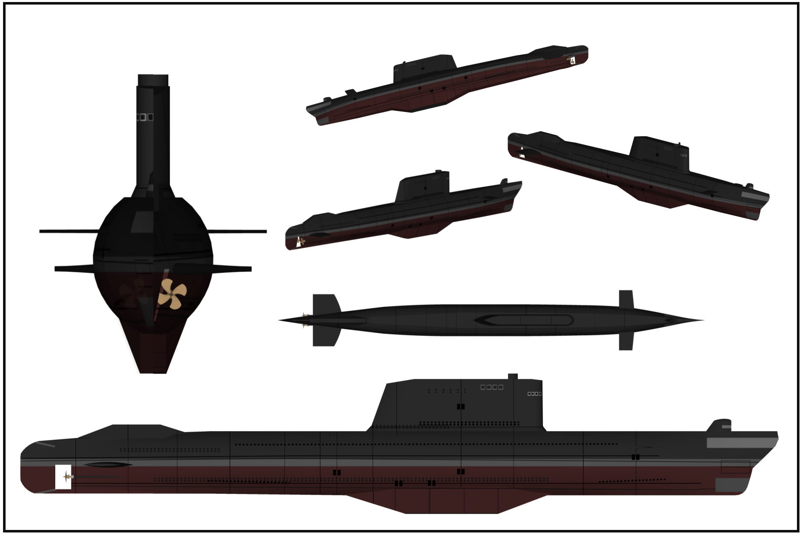 Golf II ballistic missile submarine, of the same type as K-129